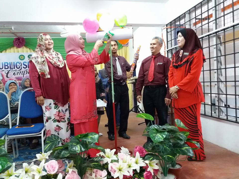 bulan kemerdekaan